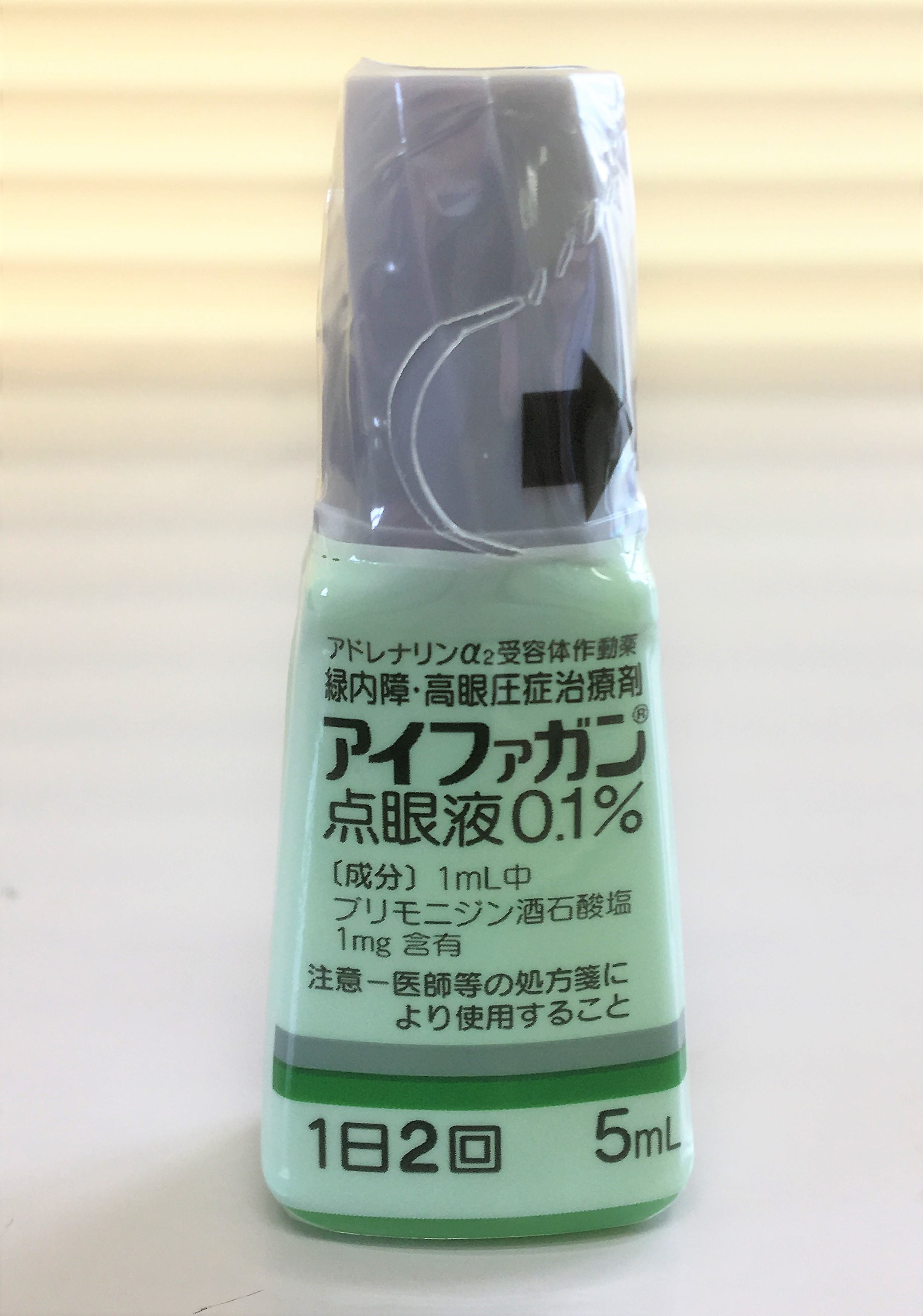 Brimonidine / Alphagan eye drop